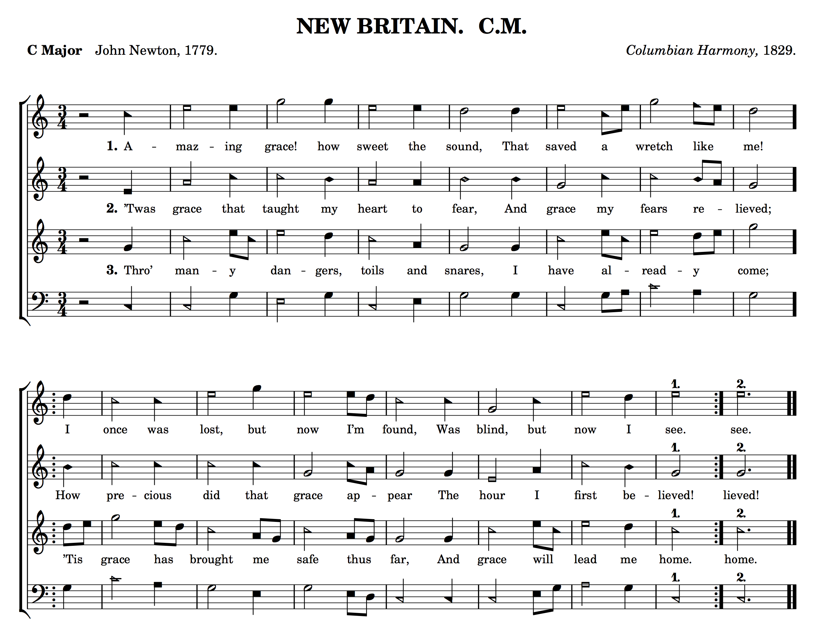 Music notation: The tune NEW BRITAIN ("Amazing Grace") in shape notes Image file created with LilyPond software by Jchthys. The music itself, although published in the 1991 edition of The Sacred Harp, is currently in the public domain. This image is not copyrighted, and it is hereby released by Jchthys into the public domain.